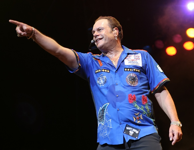 Harry Wayne Casey (KC) of KC & The Sunshine Band performing at the Del Mar CA Fairgrounds.